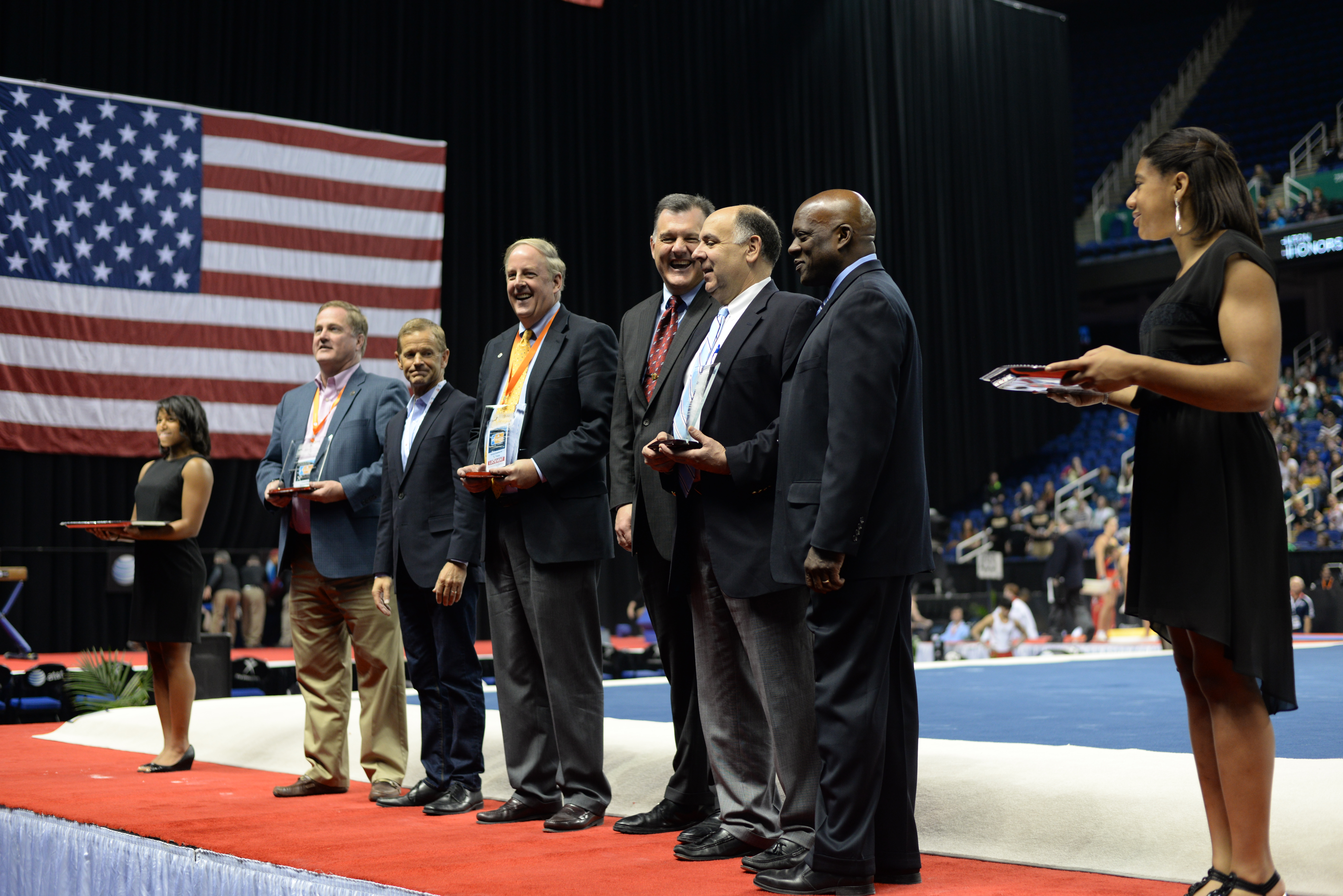 usa gymnastics